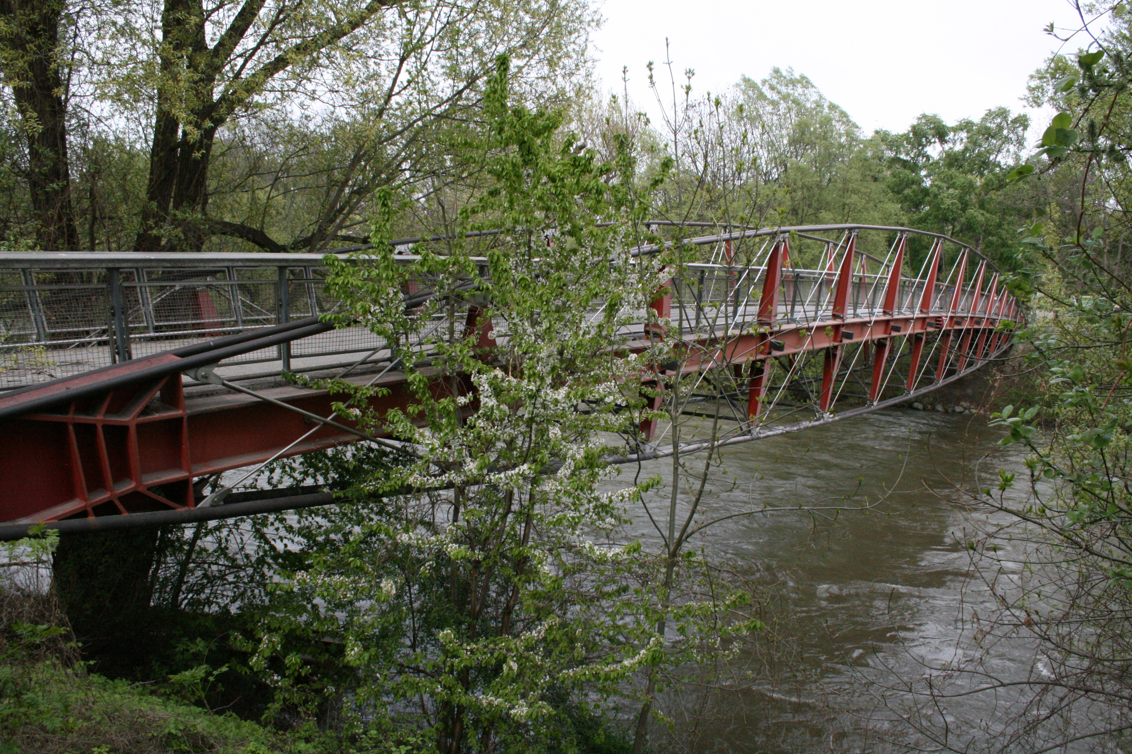 "Augartensteg" bridge in Graz, Austria, Europe